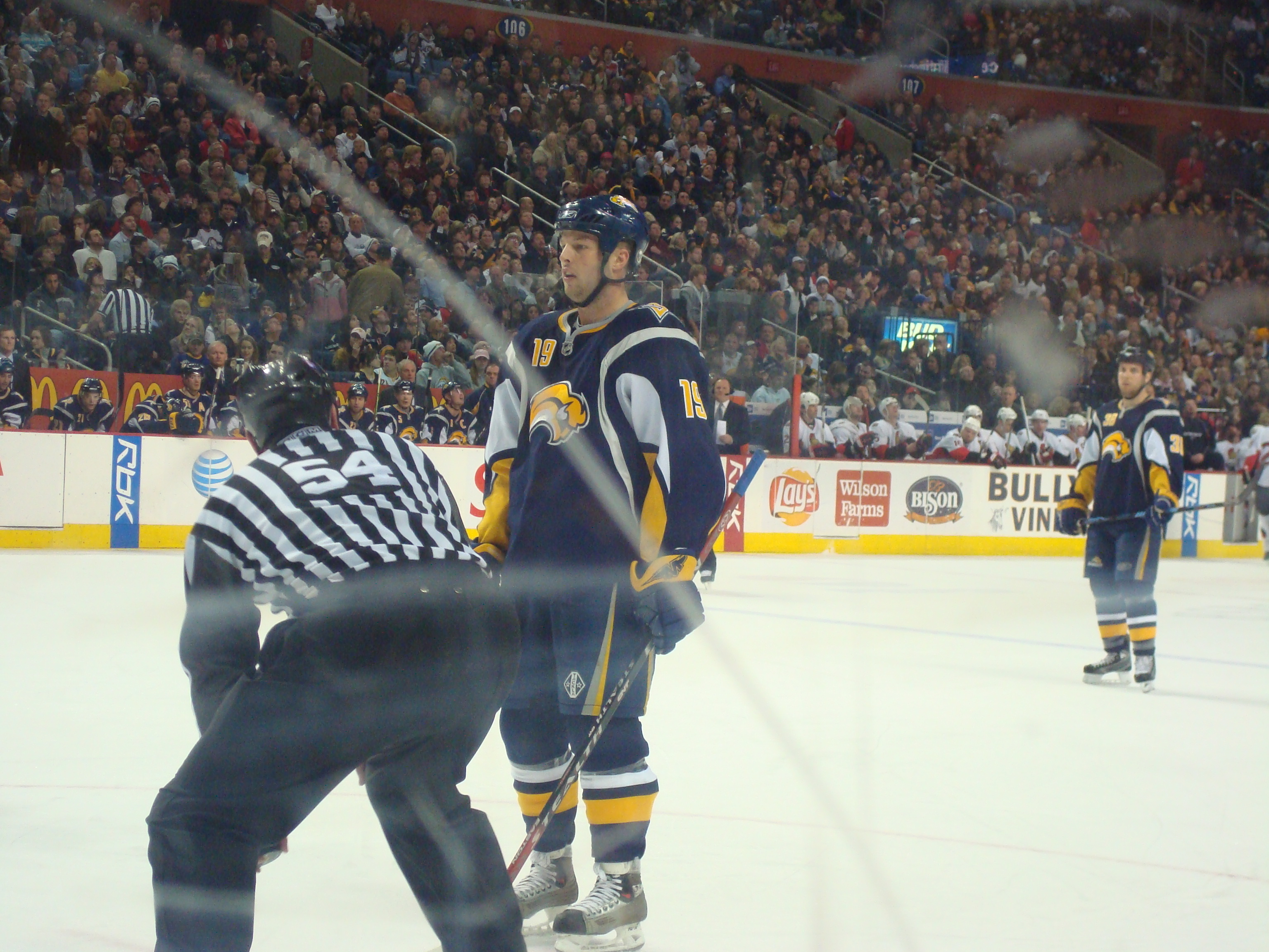 Tim Connolly gets ready to take the face off in the sabres offensive zone in a game against ottawa jan 4th 2008.